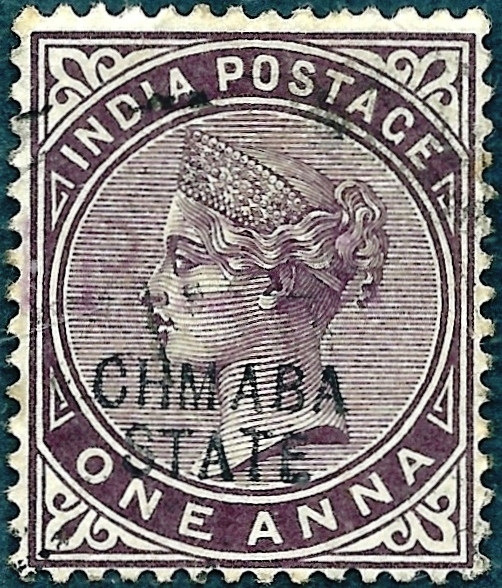 * One Anna Queen Victoria Head (colour brown-purple) overprinted with "CHMABA STATE" (Typeface 1). Fourth printing error. Printed on July 1891. Error in that it should have been printed "CHAMBA STATE". Postage stamp of Chamba state, an Indian Himalayan convention state. Ser No 2a for Chamba in Stanley Gibbons Stamp Catalogue Commonwealth & British Empire Stamps (1840-1970). (2008). London. Ref pp 281-283. Own work. From the collection of Brig A.P. Singh (self).